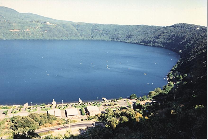 Lake Albano, Gandolfi, Italy意大利阿尔巴诺湖